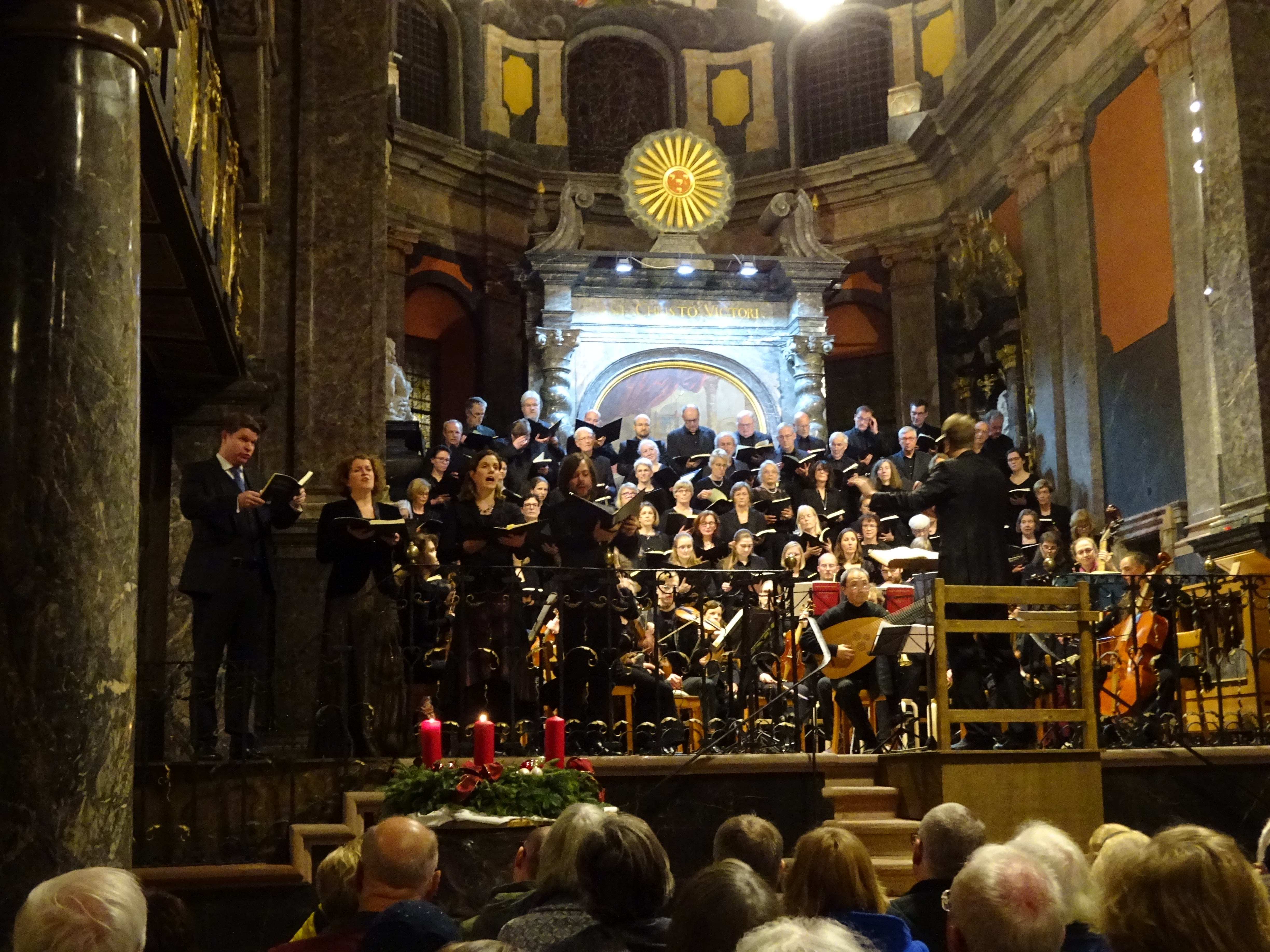 Idsteiner Kantorei, choral concert at the Unionskirche, Idstein, conducted by Carsten Koch, Bach: Christmas Oratorio, Part 6, with soloists (from left) Johannes Hill, Susanne Völger, Anne Bierwirth, Thomas Jacobs